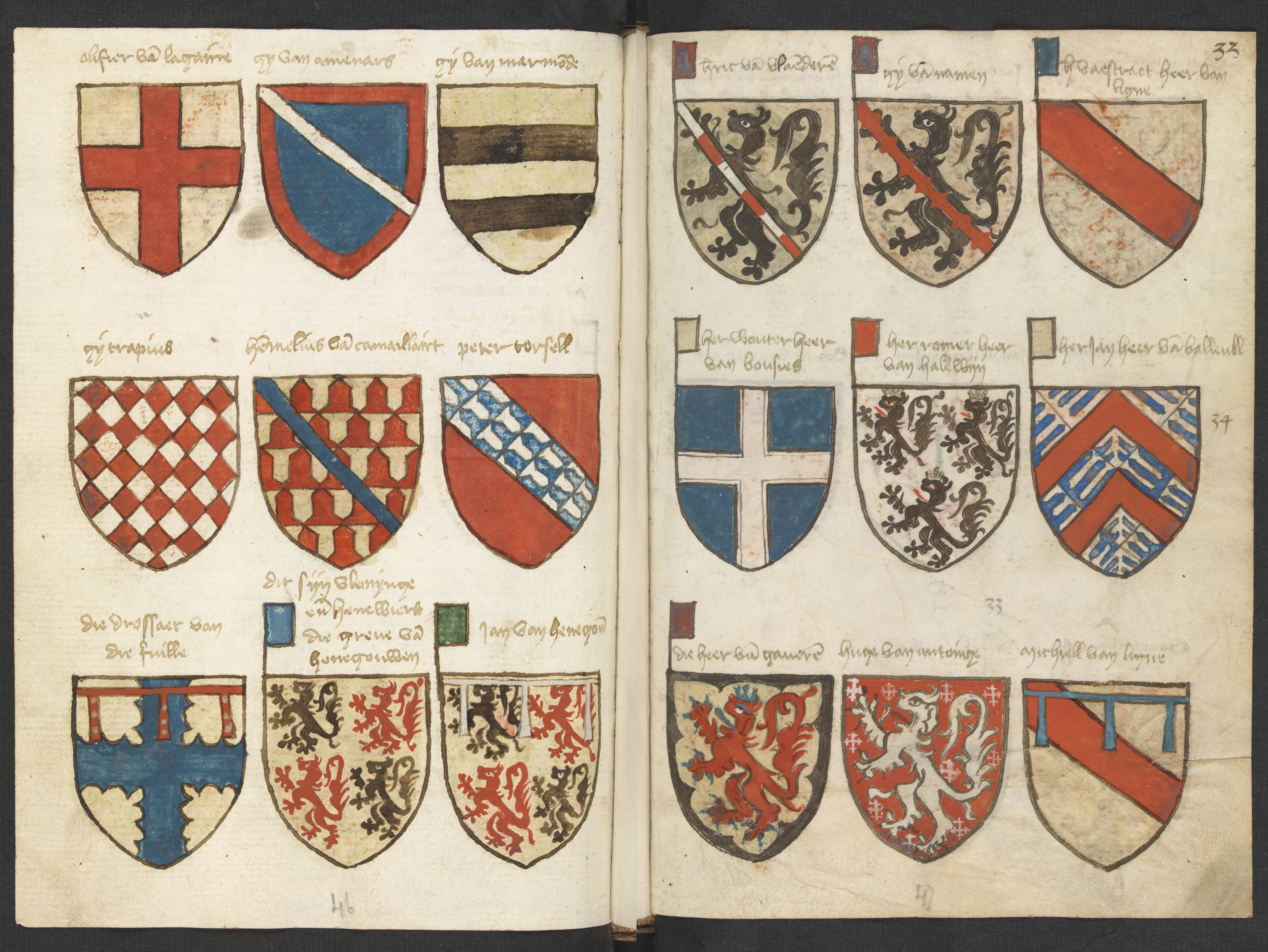 Lefthand side folio 032v; righthand side folio 033r from the Beyeren armorial / Wapenboek Beyeren